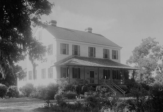 Numertia Plantation House, Eutaw Springs vicinity (Orangeburg County, South Carolina) - cropped and brightness lowered to reduce glare This file comes from the Historic American Buildings Survey (HABS), Historic American Engineering Record (HAER) or Historic American Landscapes Survey (HALS). These are programs of the National Park Service established for the purpose of documenting historic places. Records consist of measured drawings, archival photographs, and written reports. When reusing please credit: Library of Congress, Prints & Photographs Division, SC,38-EUTA.V,3-1 This tag does not indicate the copyright status of the attached work. A normal copyright tag is still required. See Commons:Licensing. This work is in the public domain in the United States because it is a work prepared by an officer or employee of the United States Government as part of that person’s official duties under the terms of Title 17, Chapter 1, Section 105 of the US Code. Note: This only applies to original works of the Federal Government and not to the work of any individual U.S. state, territory, commonwealth, county, municipality, or any other subdivision. This template also does not apply to postage stamp designs published by the United States Postal Service since 1978. (See § 313.6(C)(1) of Compendium of U.S. Copyright Office Practices). It also does not apply to certain US coins; see The US Mint Terms of Use. This file has been identified as being free of known restrictions under copyright law, including all related and neighboring rights.